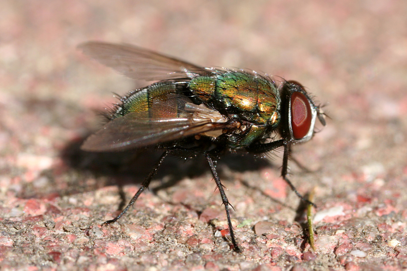 Green bottle fly (Lucilia sericata) found in Lodi, California.